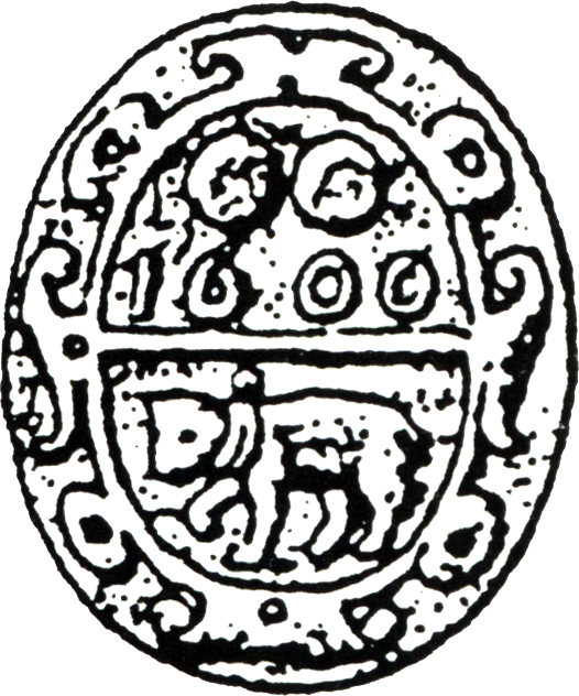 Gauger's stamp of Berlin from 1600.